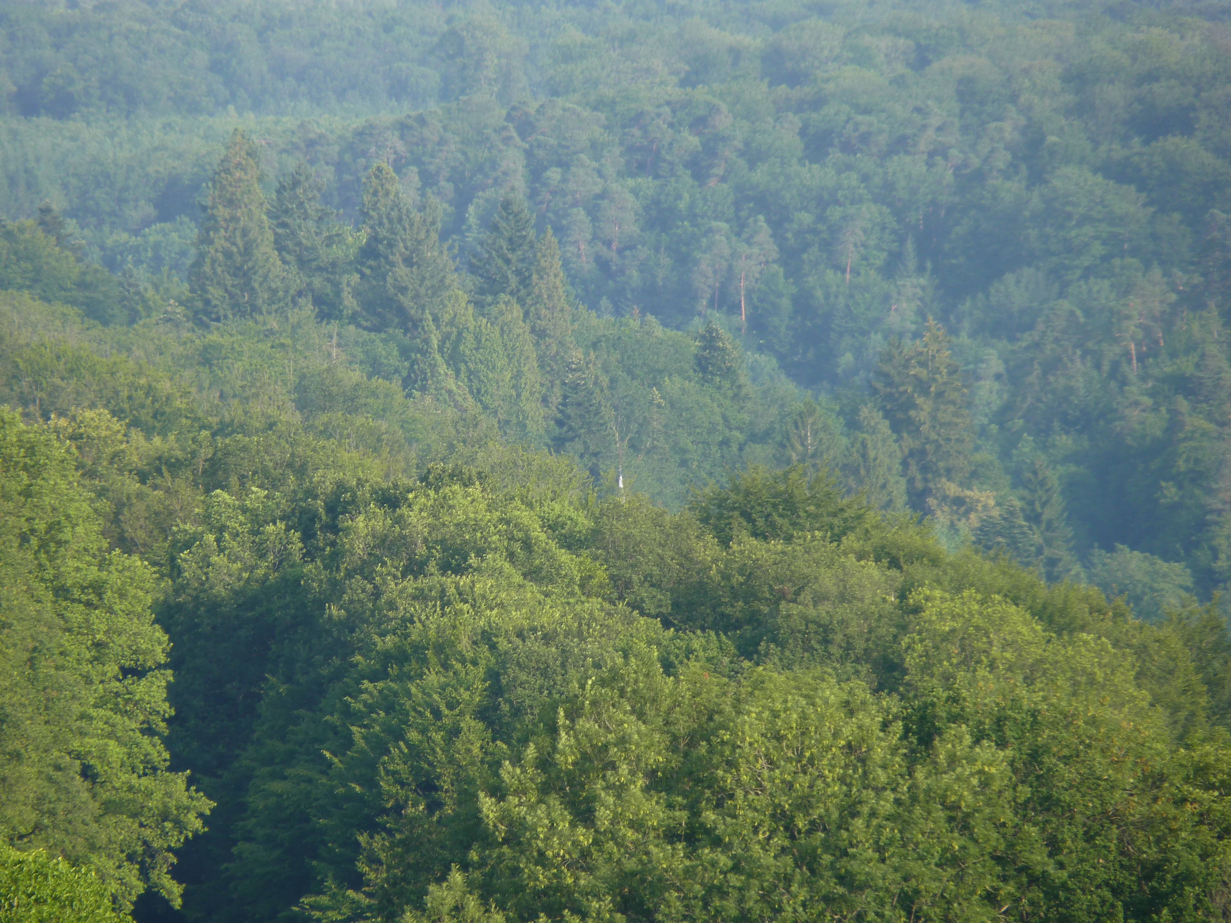 Ourche Valley going thought Darney Forest